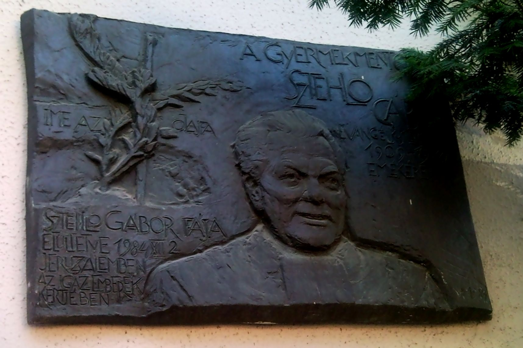 Gábor Sztehlo commemorative plaque in Budapest District I, Bécsi Kapu Square. Created by Tamás Vígh.